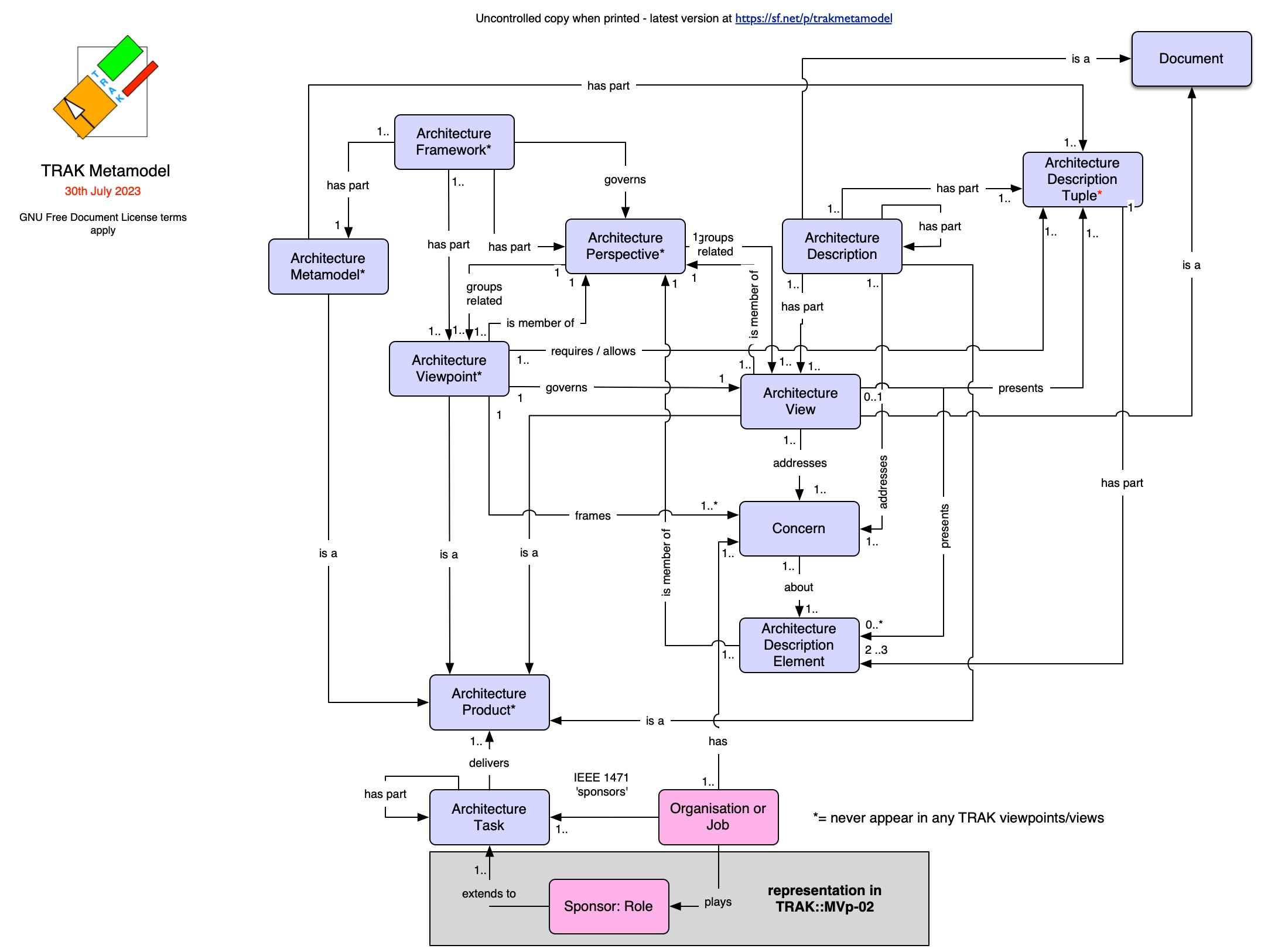 Defines the tuples/triples within the TRAK metamodel that are used for the management of TRAK. Also used for the conformance with ISO/IEC/IEEE 42010.